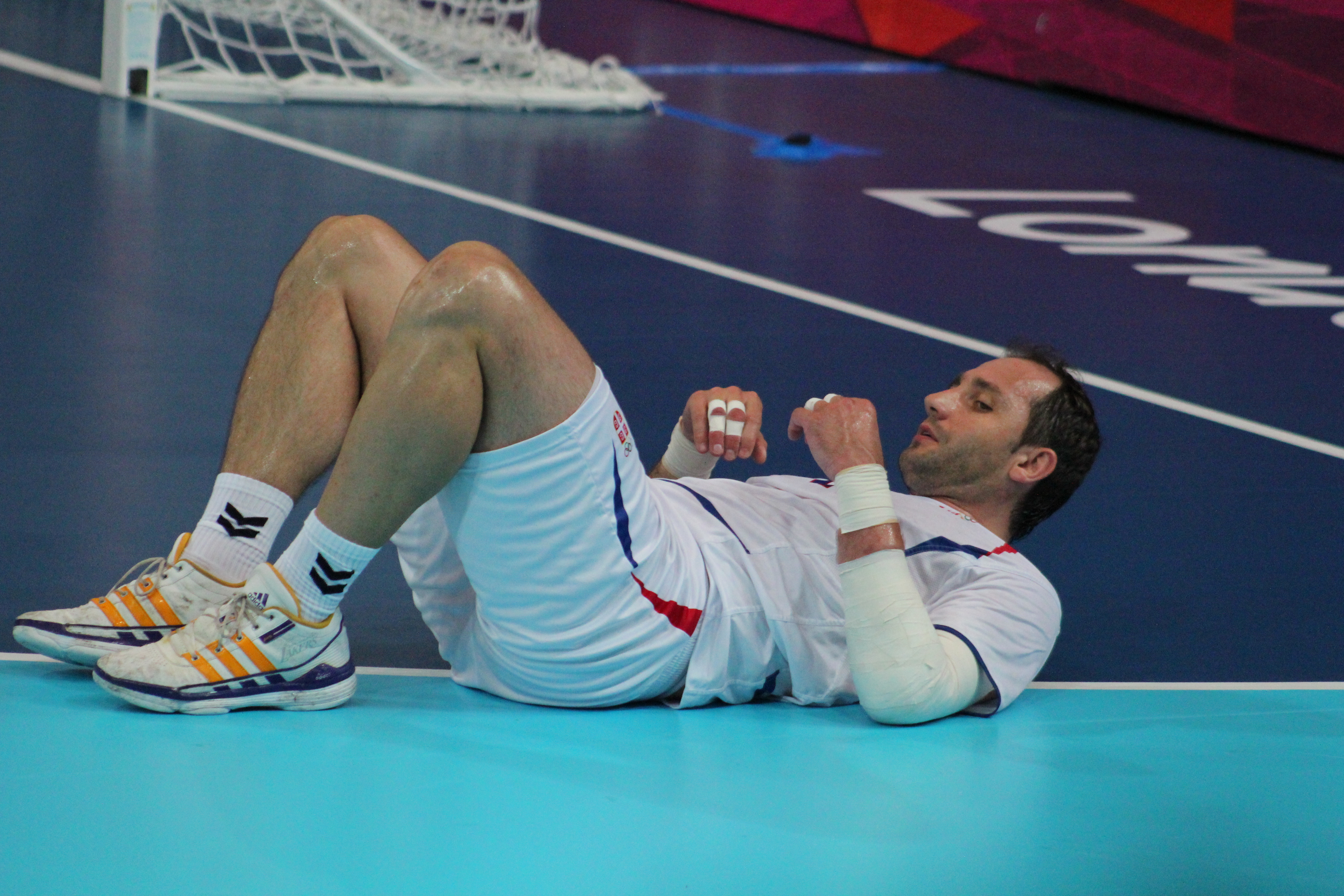 London Olympics 2012. Features Handball, mostly Serbia pics.